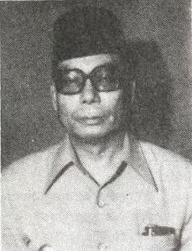 Official portrait of EWP Tambunan as the member of the People's Consultative Assembly in 1982.